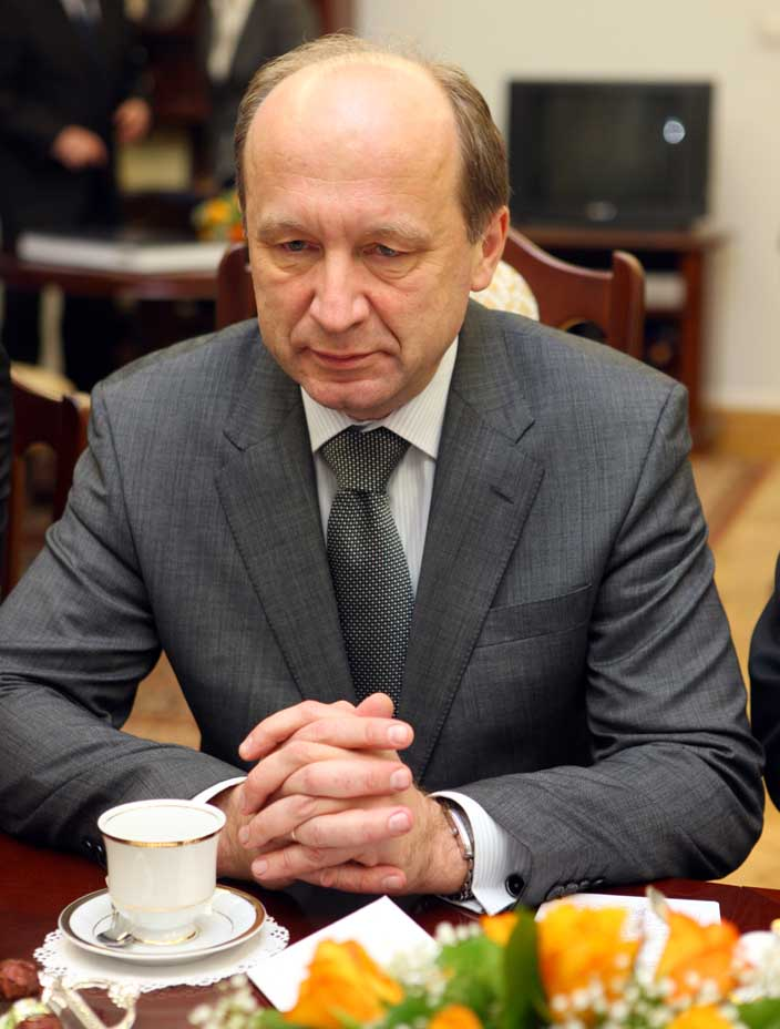 Andrius Kubilius